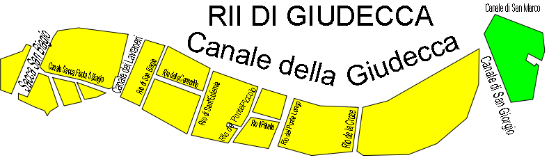 map of canals of giudecca venice